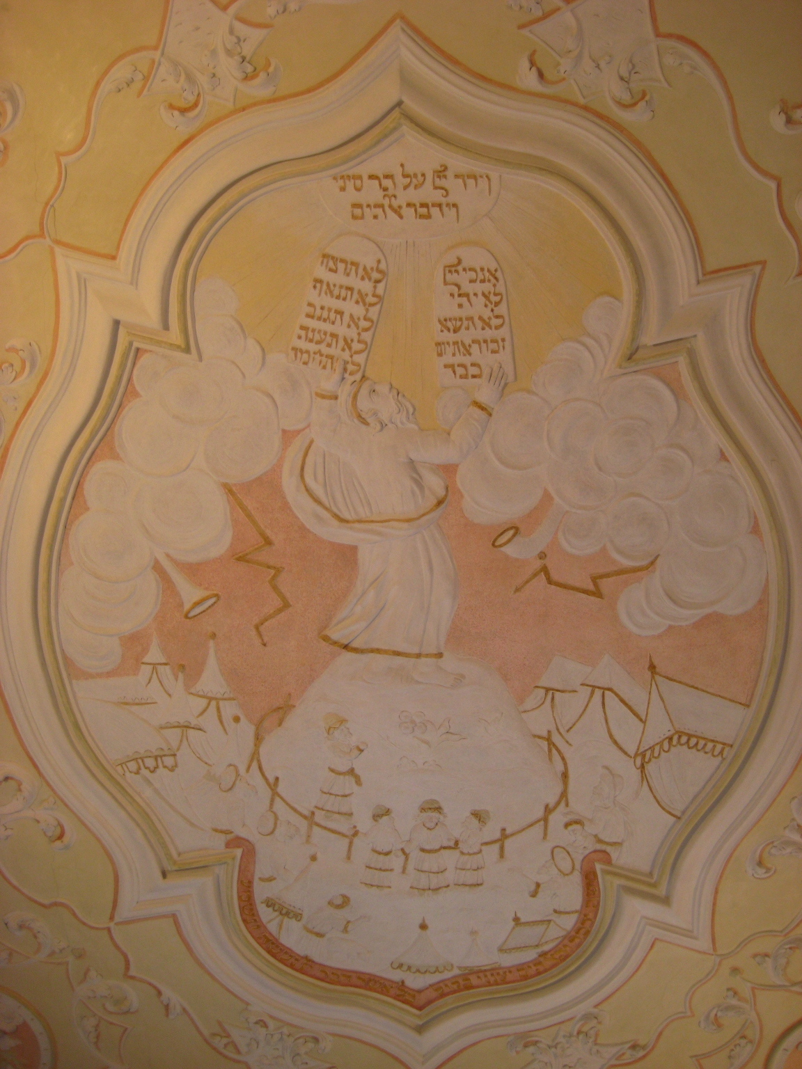 Ceiling in Monheim Town Hall: Moses receiving the ten commandments.